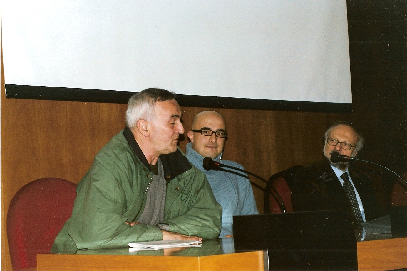 Photo by Tiziana Galliani, friend of Wikipedia user Attilios